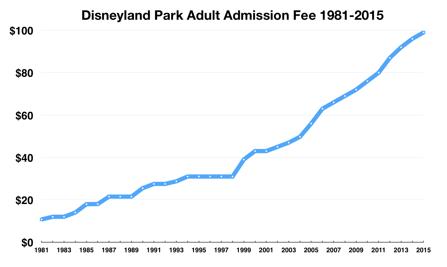 Graph of adult admission cost to Disneyland Park in California